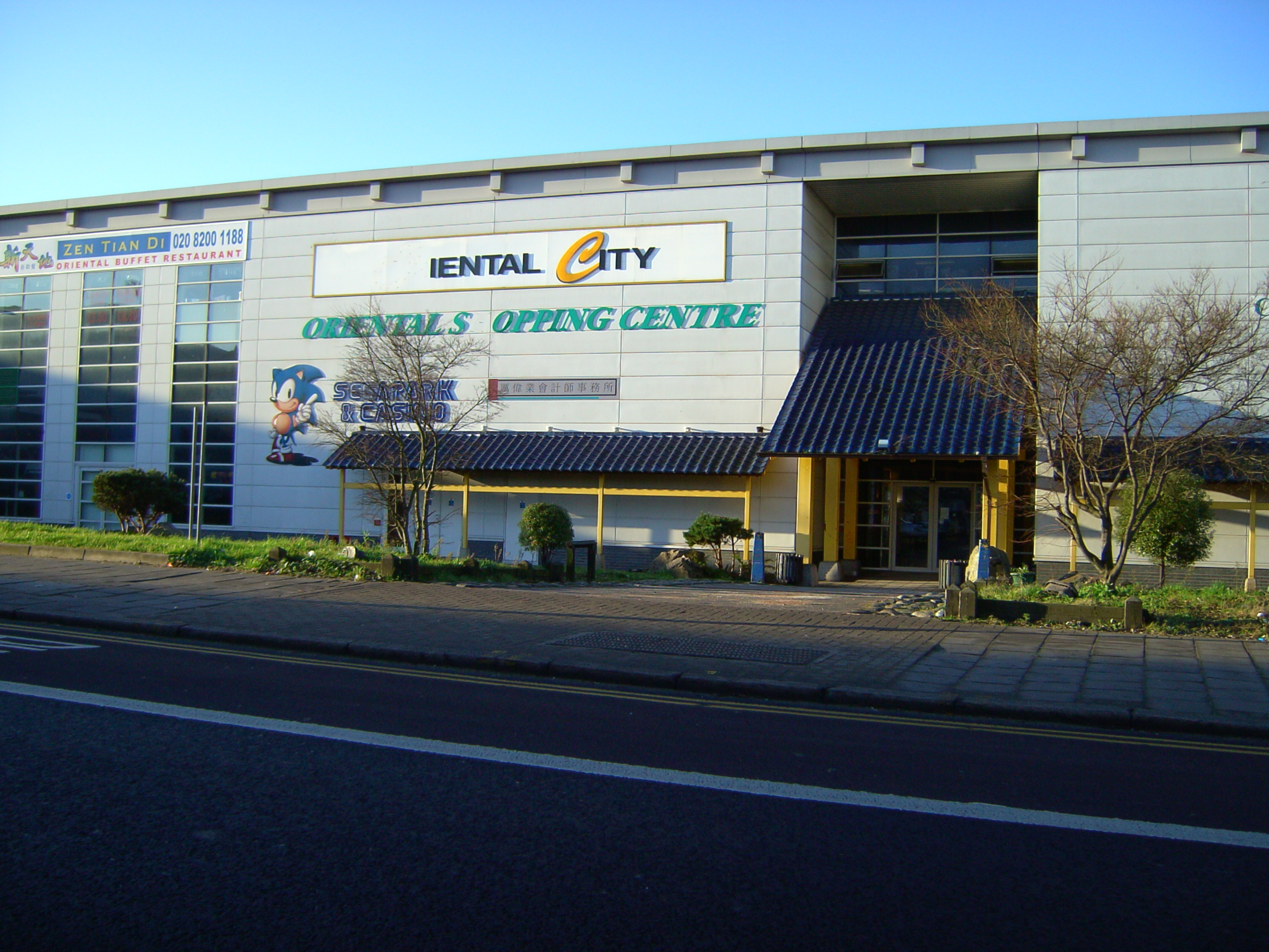 Oriental City shopping centre, Colindale.